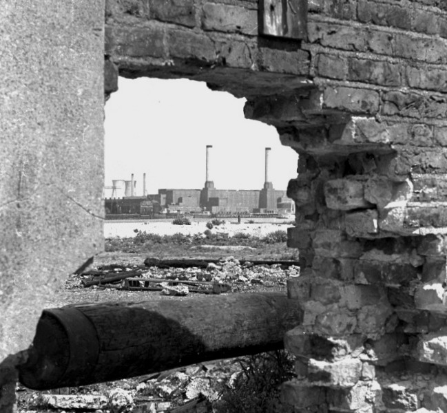 Brunswick Wharf Power Station viewed from the SW in Blackwall Yard, by Peter Land May 1974. The cooling towers and chimneys of West Ham Power Sta can be seen in the background.